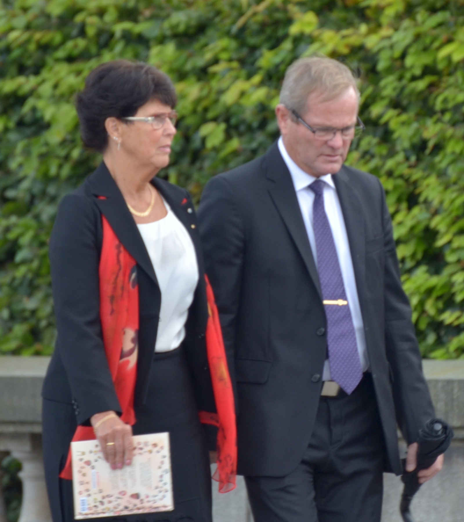 Yvonne Andersson, member of the Riksdag for the Christian Democratic Party with her husband Jan-Willy Andersson.